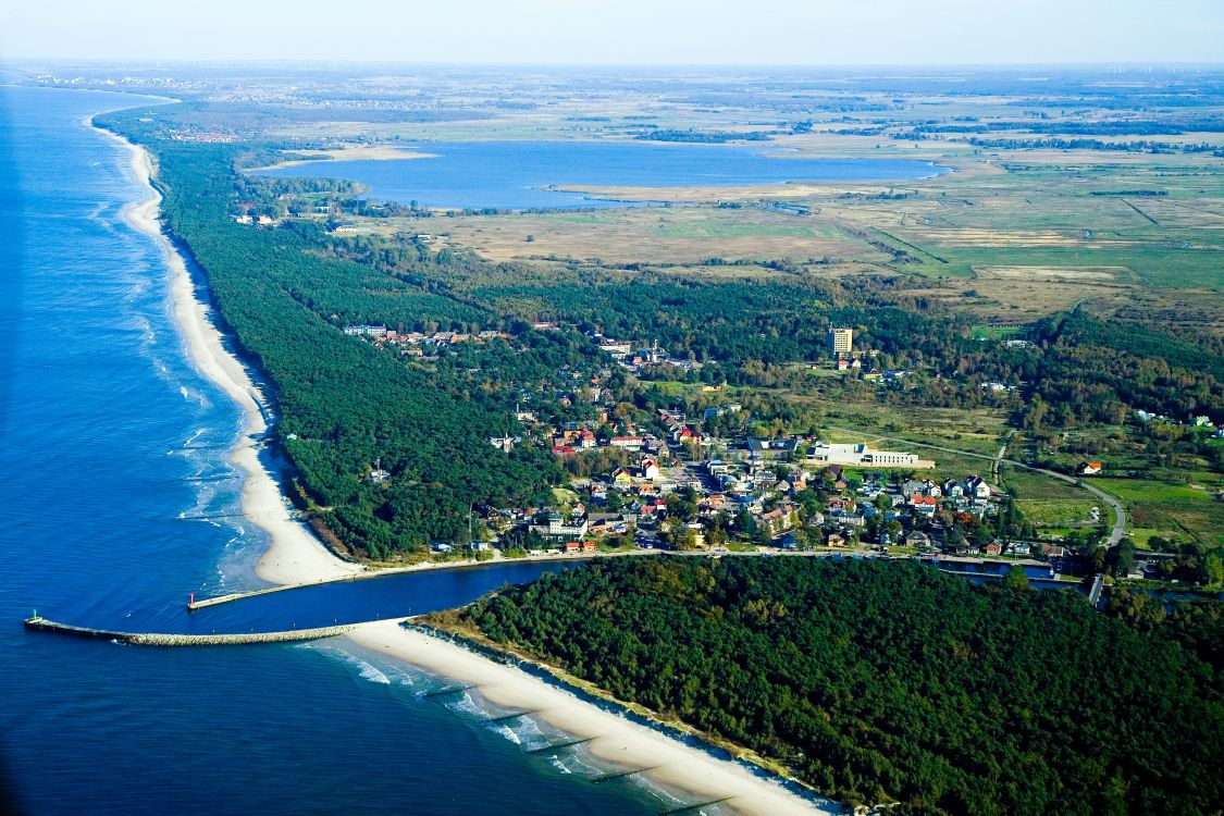 Bird's-eye view on East side of Mrzeżyno and seaport, (Poland)